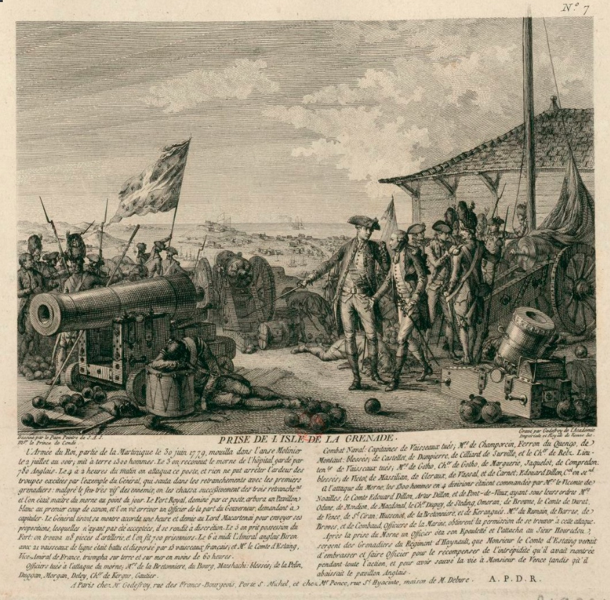 Attack of the island of Grenada, 1779 by French troops of D'Estaing.